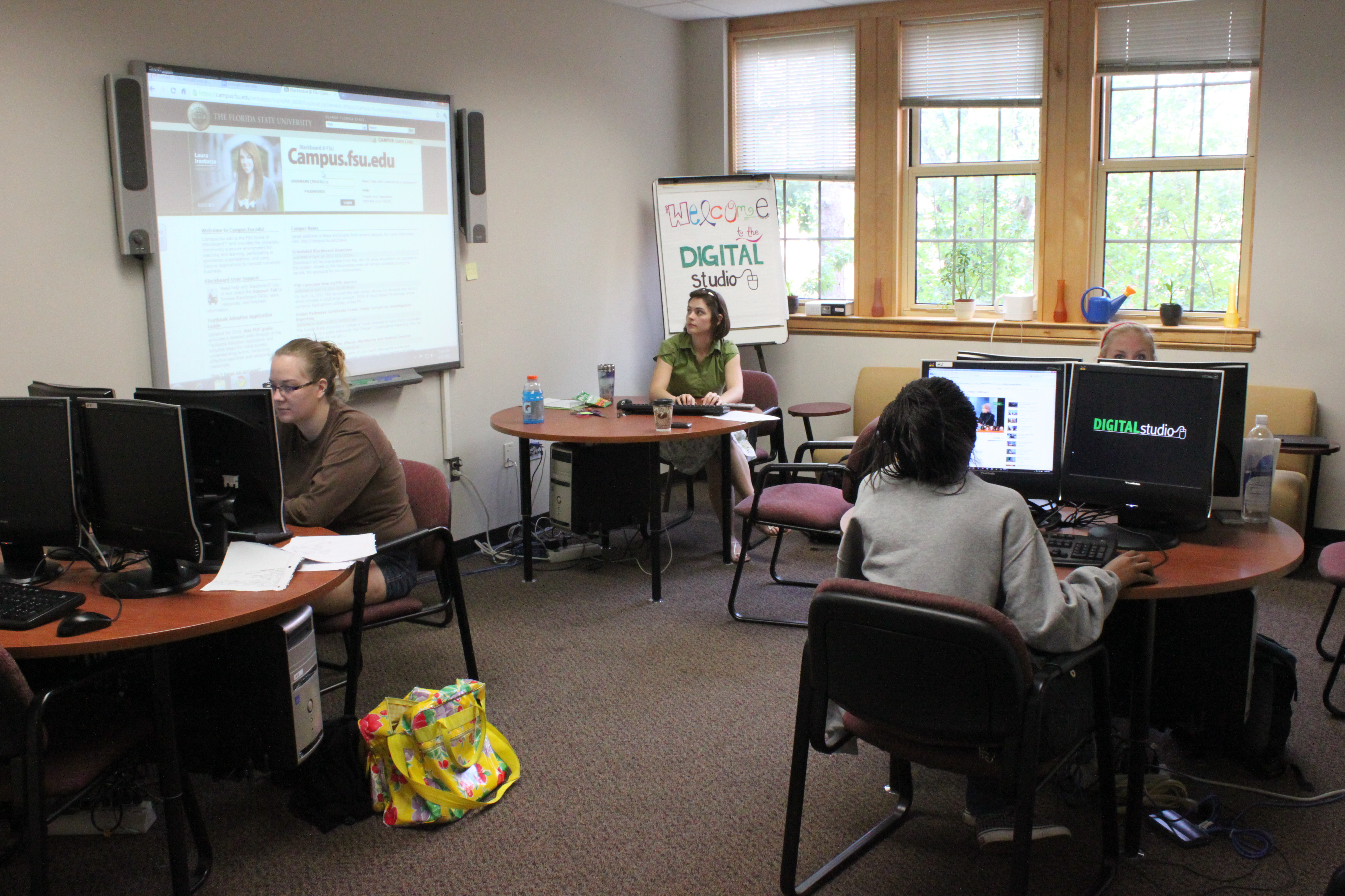 in the Studio